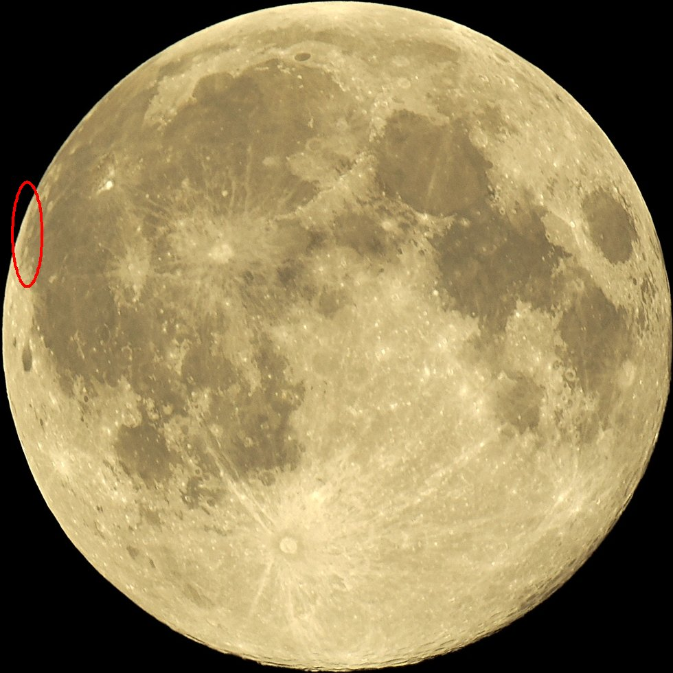 Location of crater Einstein on the Moon